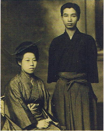 KAGAWA Toyohiko with wife Haru